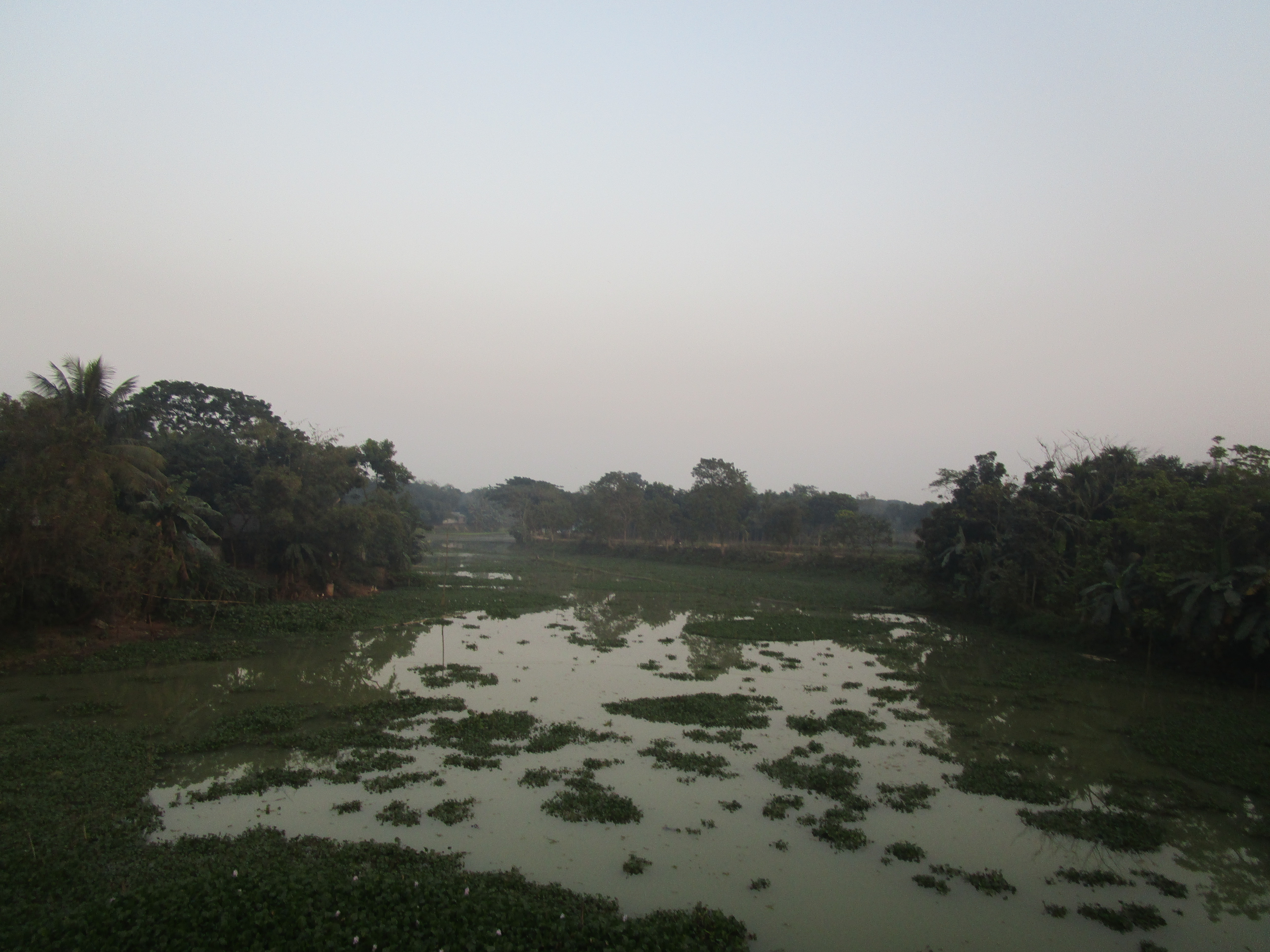 Bandsa River at Tarakanda bazar, Phulpur, Mymensingh.